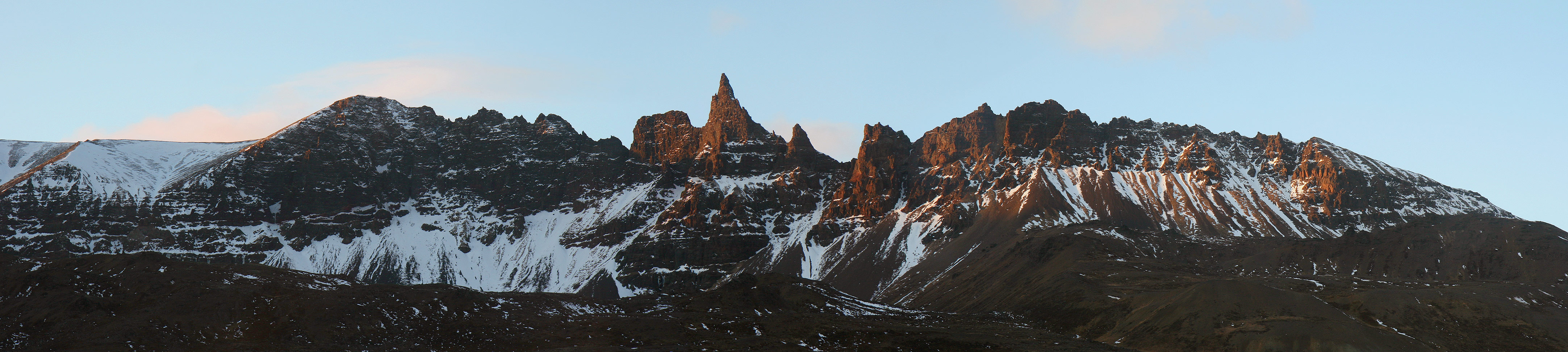 Ridge (1188m) along the north slope of Öxnadalur, November 21 15:42 Iceland, November 2007 Photo by me user:debivort (or friend, with permission given to freely license photo).